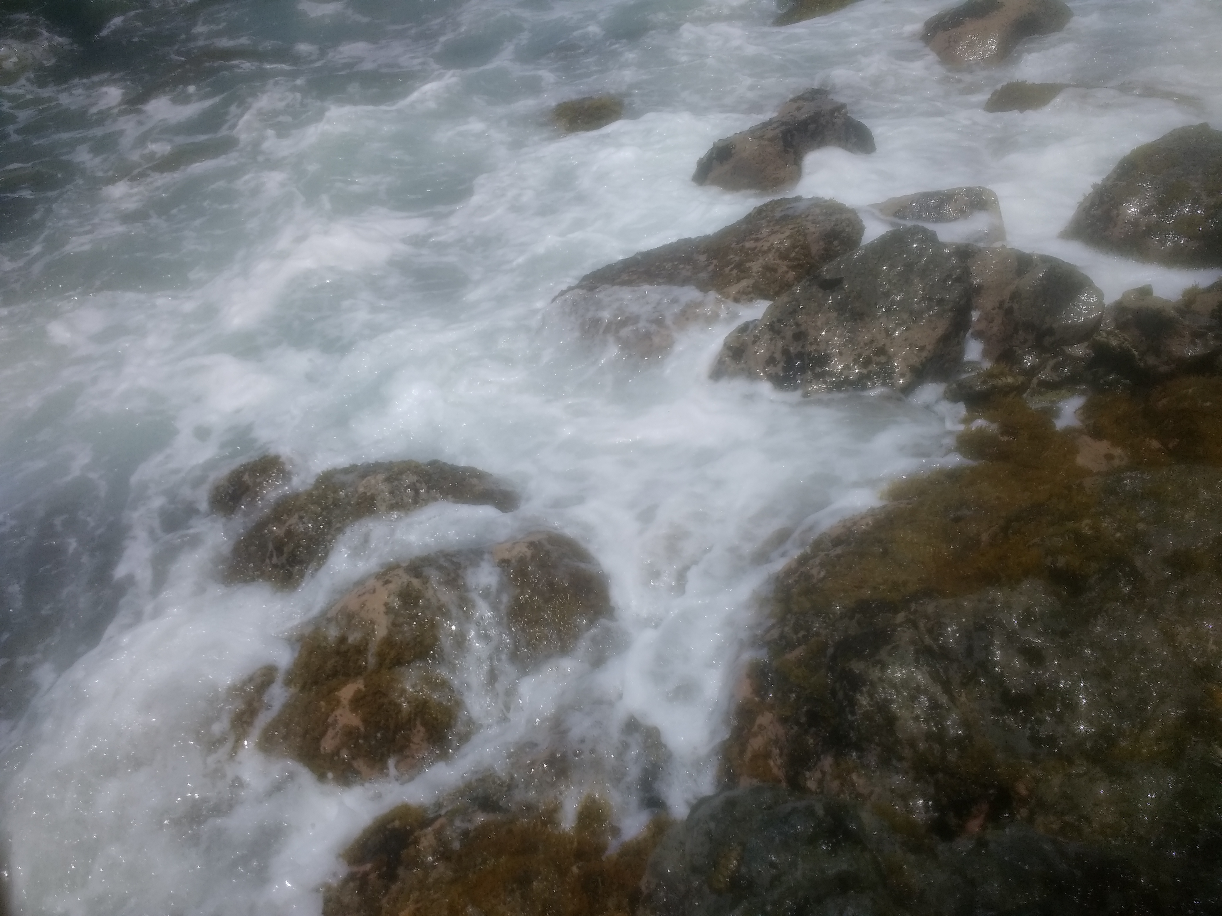 Rocky shores punctuate the shoreline between beaches in the US Virgin Islands. This splash zone experiences a very slight tidal range and supports a community of algae, molluscs, urchins and small fish.